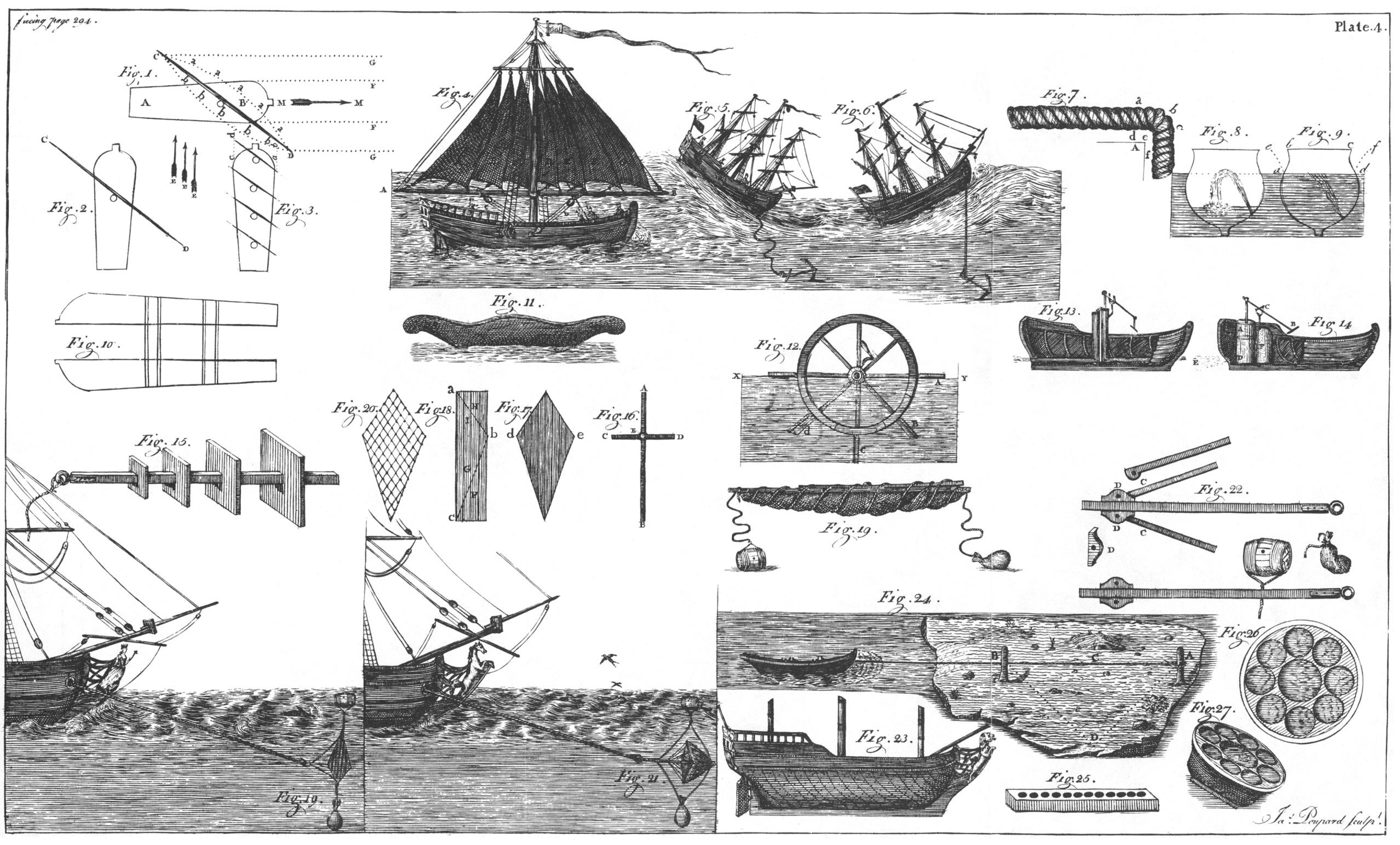 Benjamin Franklin Plate IV from (1786). "A Letter from Dr. Benjamin Franklin, to Mr. Alphonsus le Roy, Member of Several Academies, at Paris. Containing Sundry Maritime Observations". Transactions of the American Philosophical Society 2: 294-329.